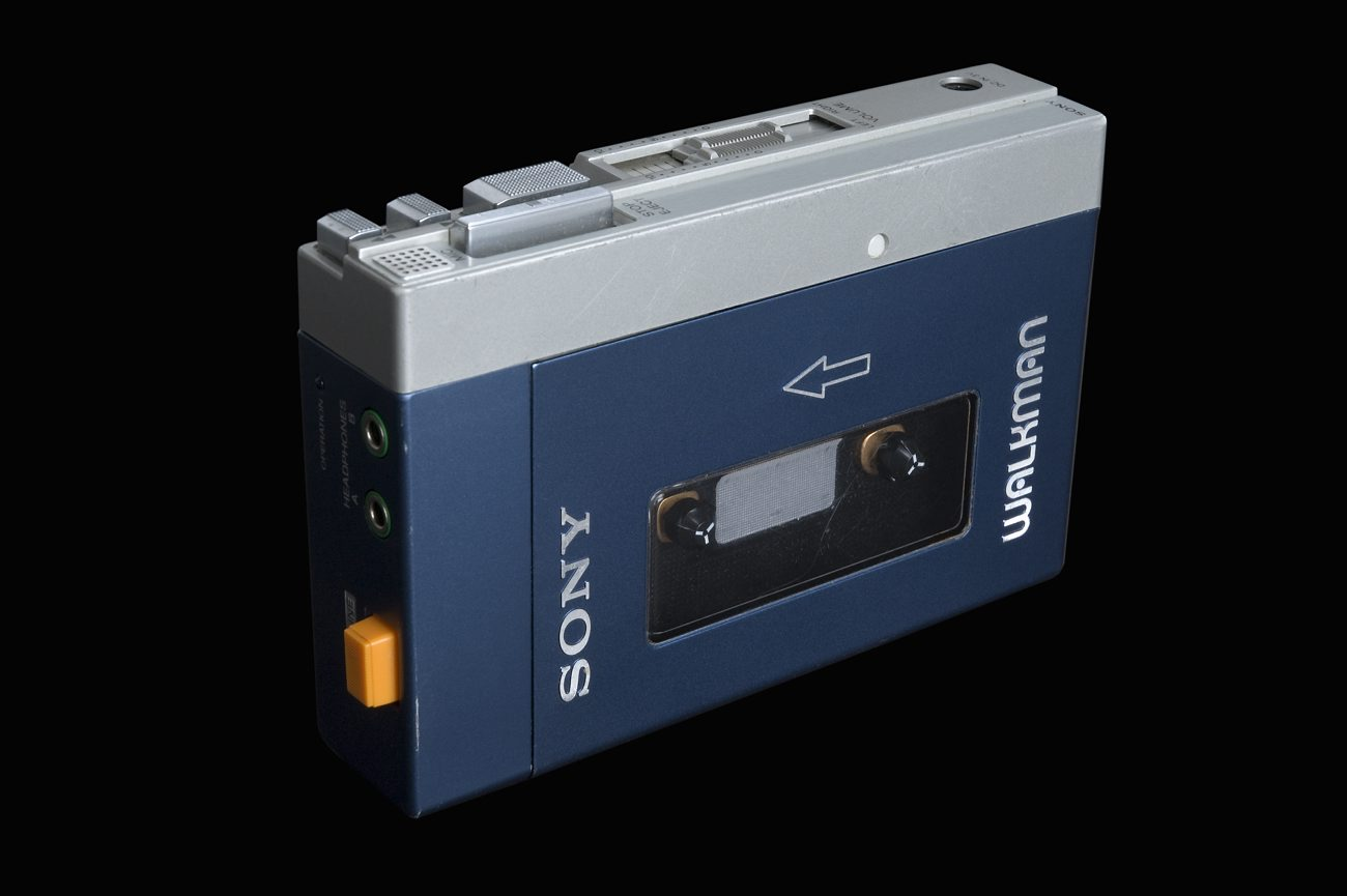 Sony Walkman model TPS-L2